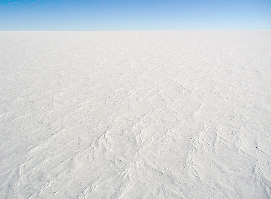 A photograph of the snow surface at Dome C Station, Antarctica, it is representative of the majority of the continent's surface. The photo was taken from the top of a tower, 32 m above the surface.